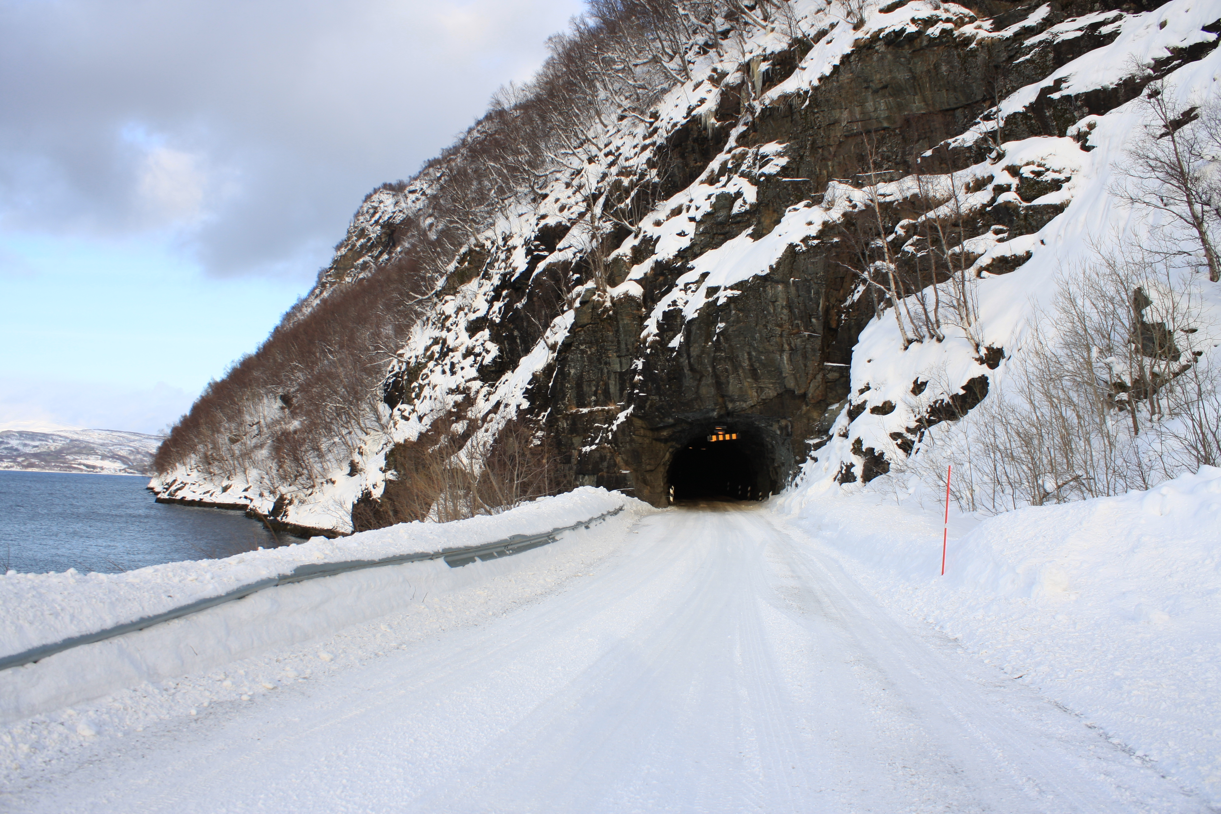 Bjørgatunnelen (road tunnel) - Southwest Entrance.